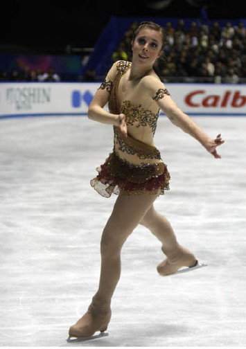 Ashley Wagner at the 2008 NHK Trophy.